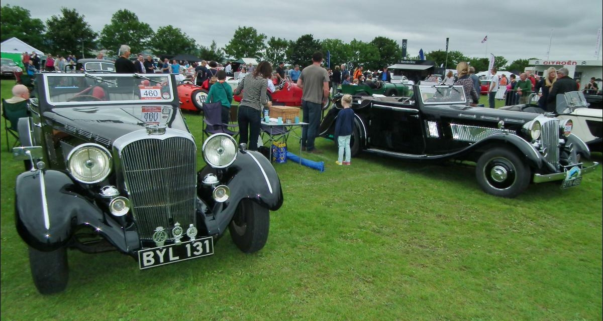 Brough Superior drop head coupésBYL 131 eight-cylinder dual-purpose 4168cc (DVLA) first registered 20 June 1935BYN486 1935 straight-eight 4.2 litre (DVLA) first registered 5 July 1935